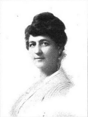 "The Woman Citizen" Bina M. West Supreme Commander W. B. A. O. T. M. Michigan's Campaign of Cooperation